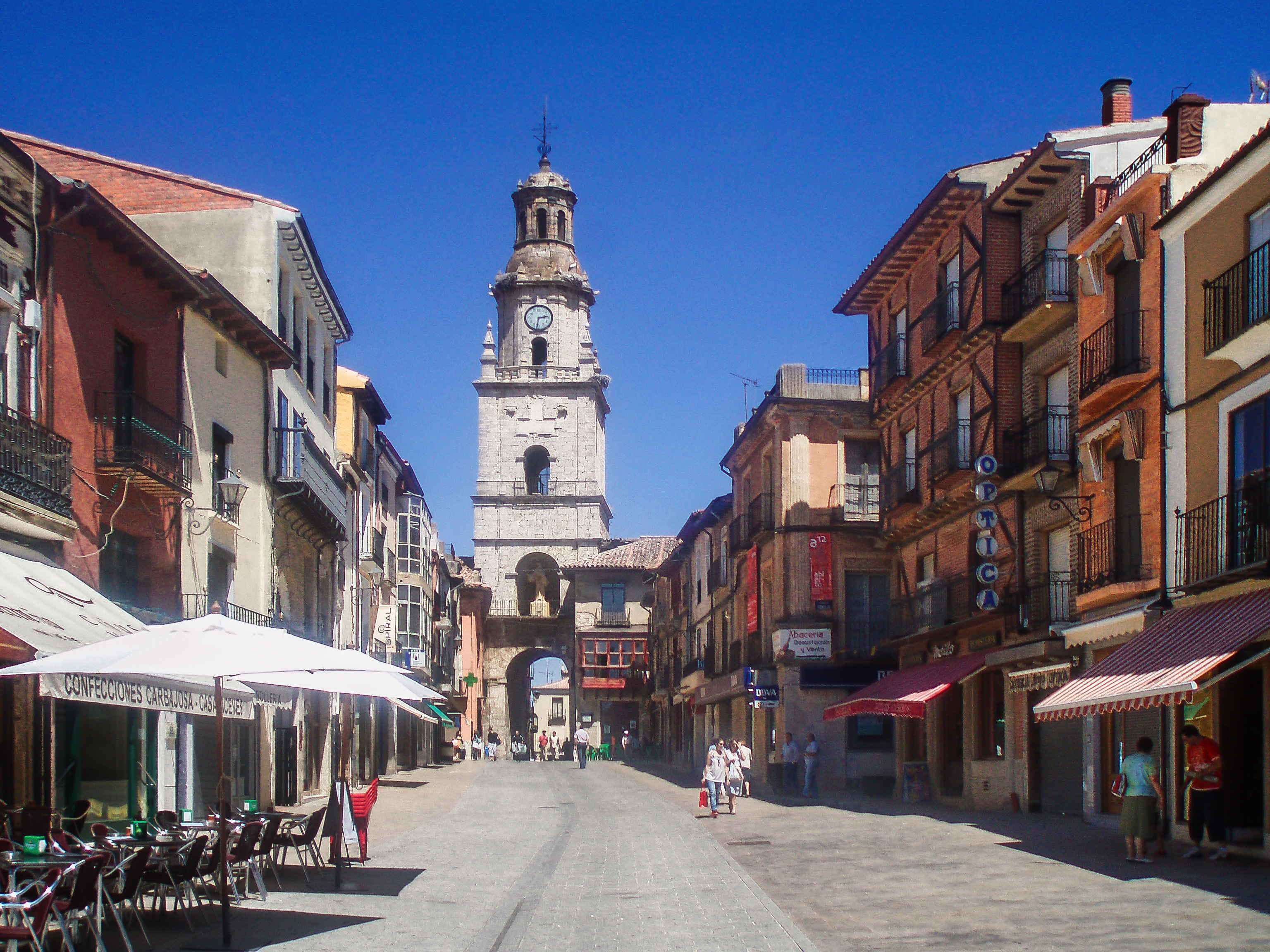 Toro, in province of Zamora. (Spain).